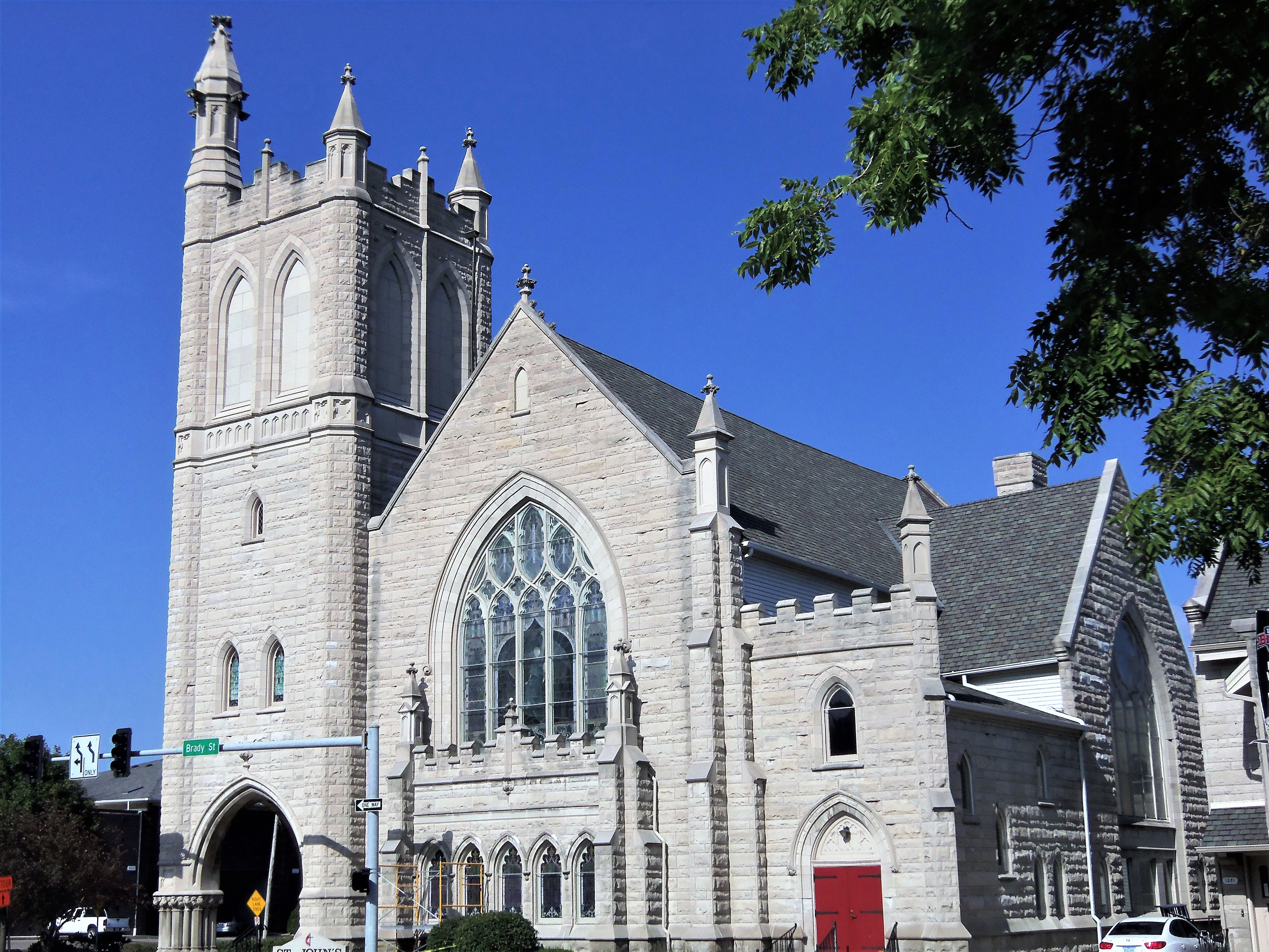 St. John's United Methodist Church, Davenport, Iowa, which is listed on the National Register of Historic Places